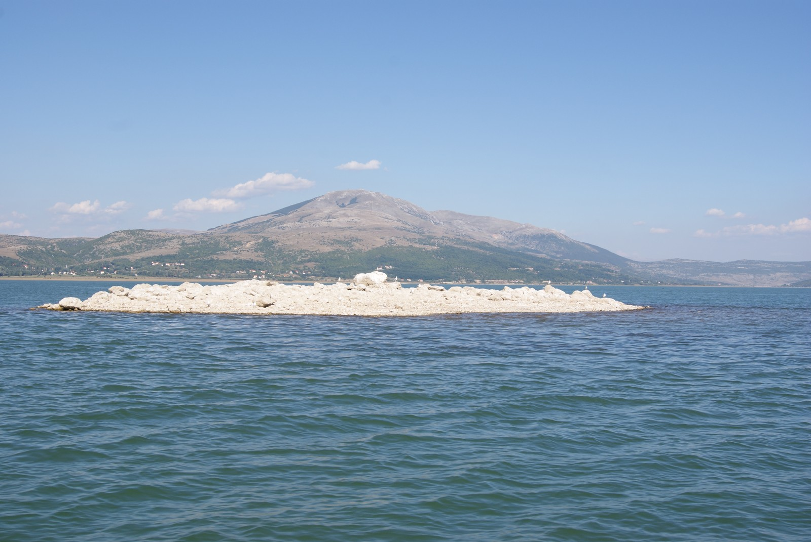 A day-trip to the Busko Jezero with a friend from a long way back.